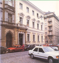 Marokkanergasse